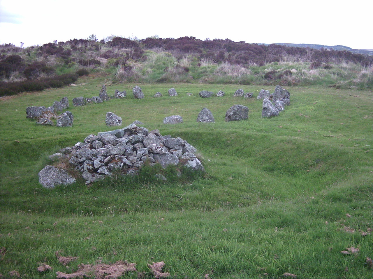 This photo shows how the monuments are smack next to each other at the site.Co. Tyrone, Beaghmore A Stone Circle and Cairn